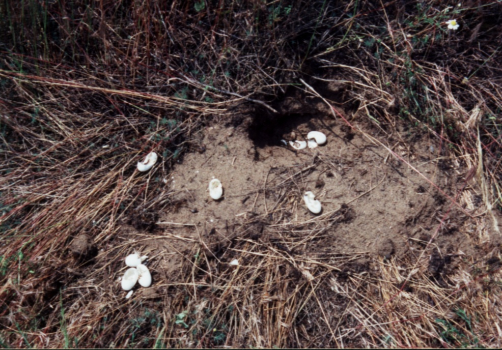 The nest of Emys orbicularis from Nature resevation wiki:Tajba near wiki:Streda nad Bodrogom in east Slovakia